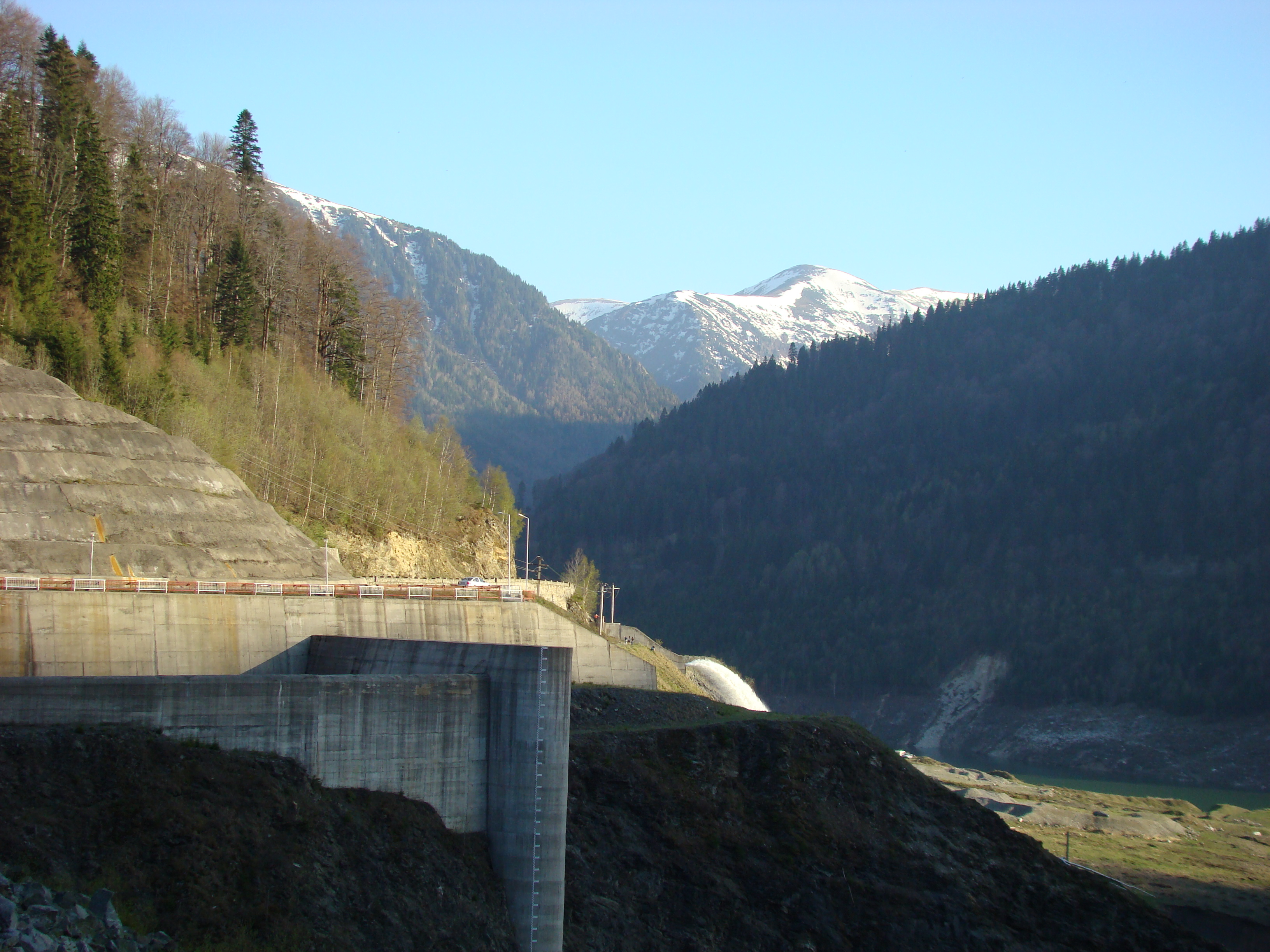 Gura Apelor dam and reservoir, Hunedoara counrty, Romania